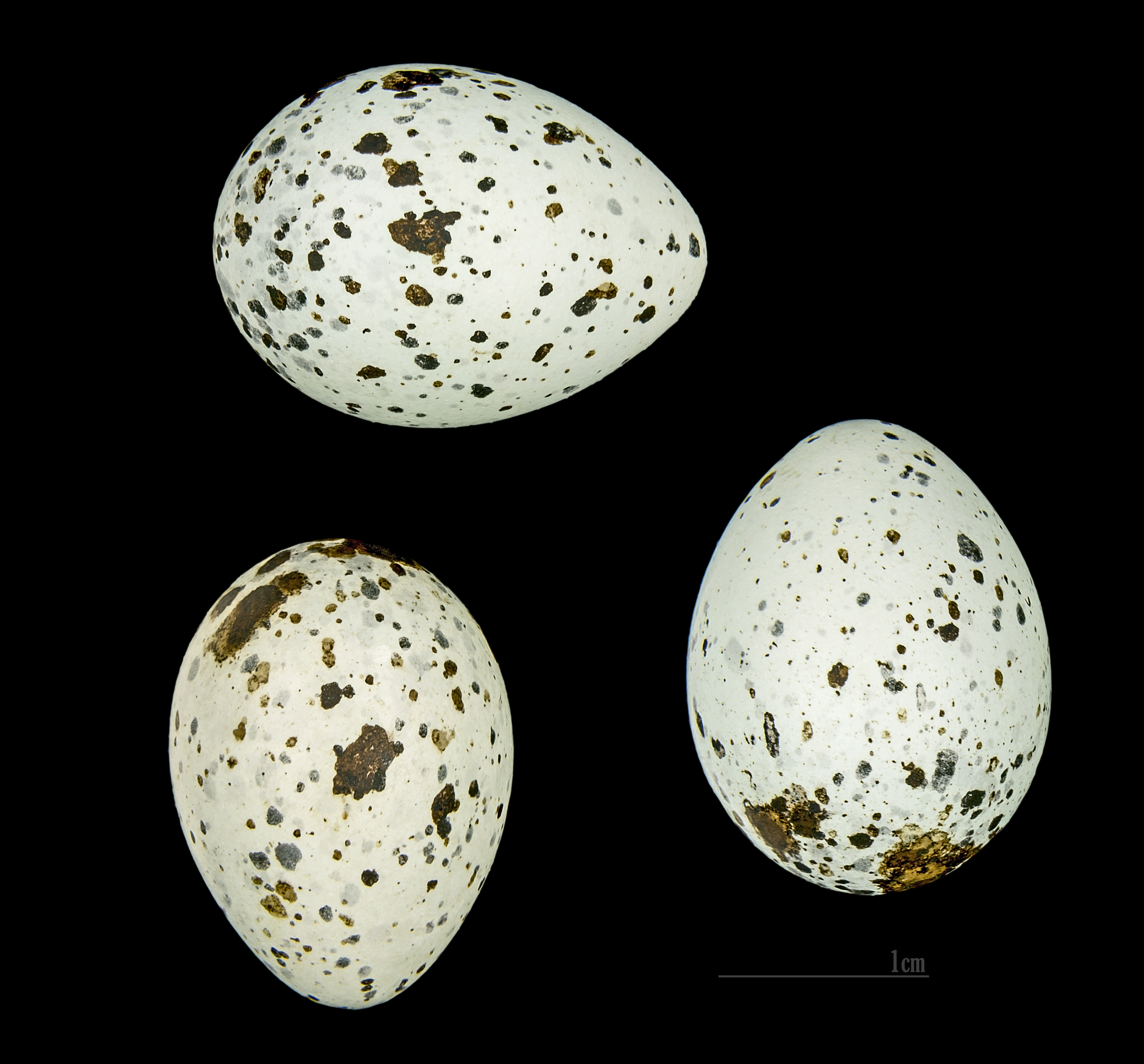 Egg of Great Reed Warbler. Collection of Jacques Perrin de Brichambaut.